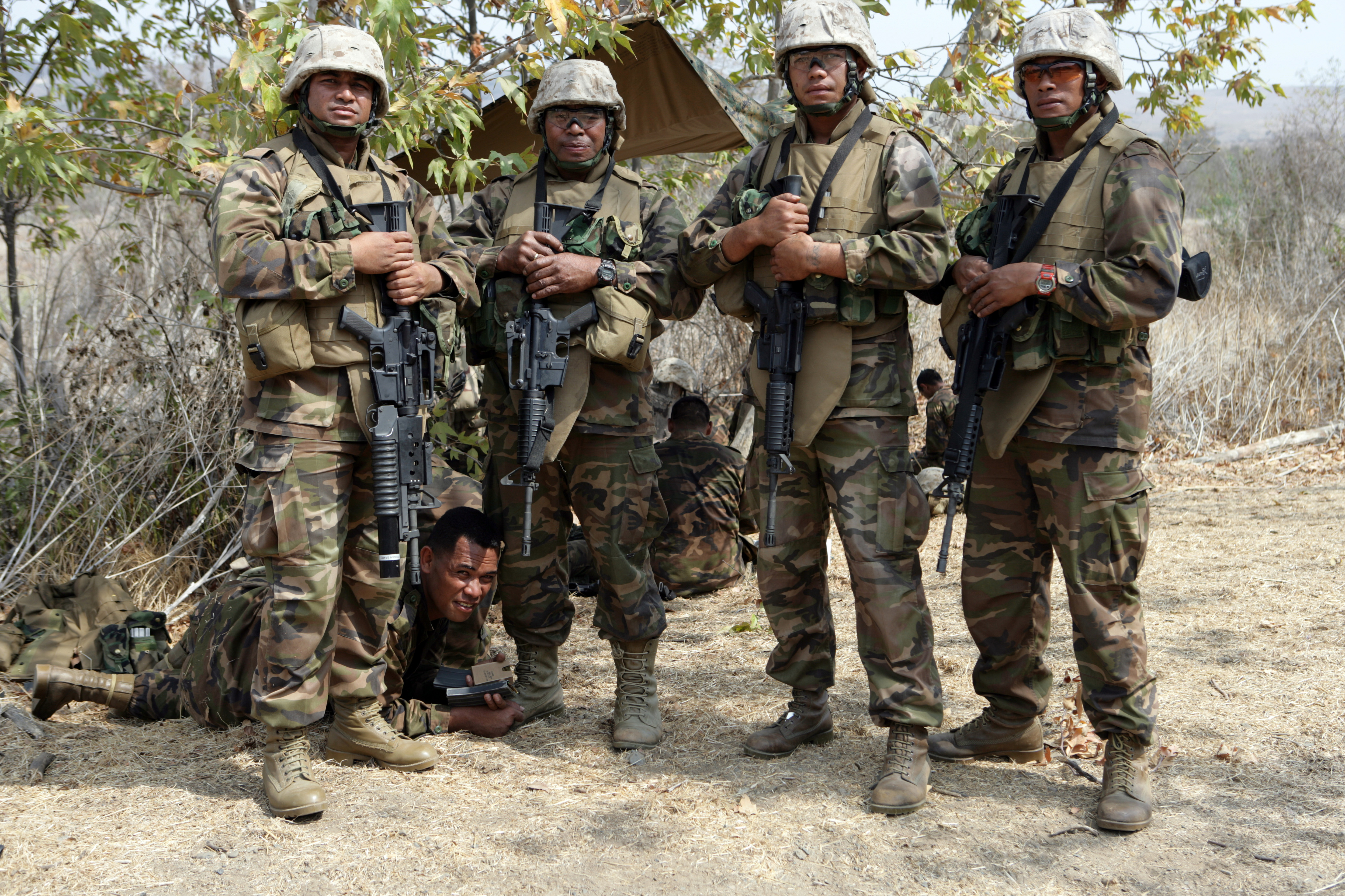 Tonga Defense Services royal marines pose for a picture during a break at Range 300 on Marine Corps Base Camp Pendleton, Calif., Aug. 25, 2007, while firing at targets during a training exercise.